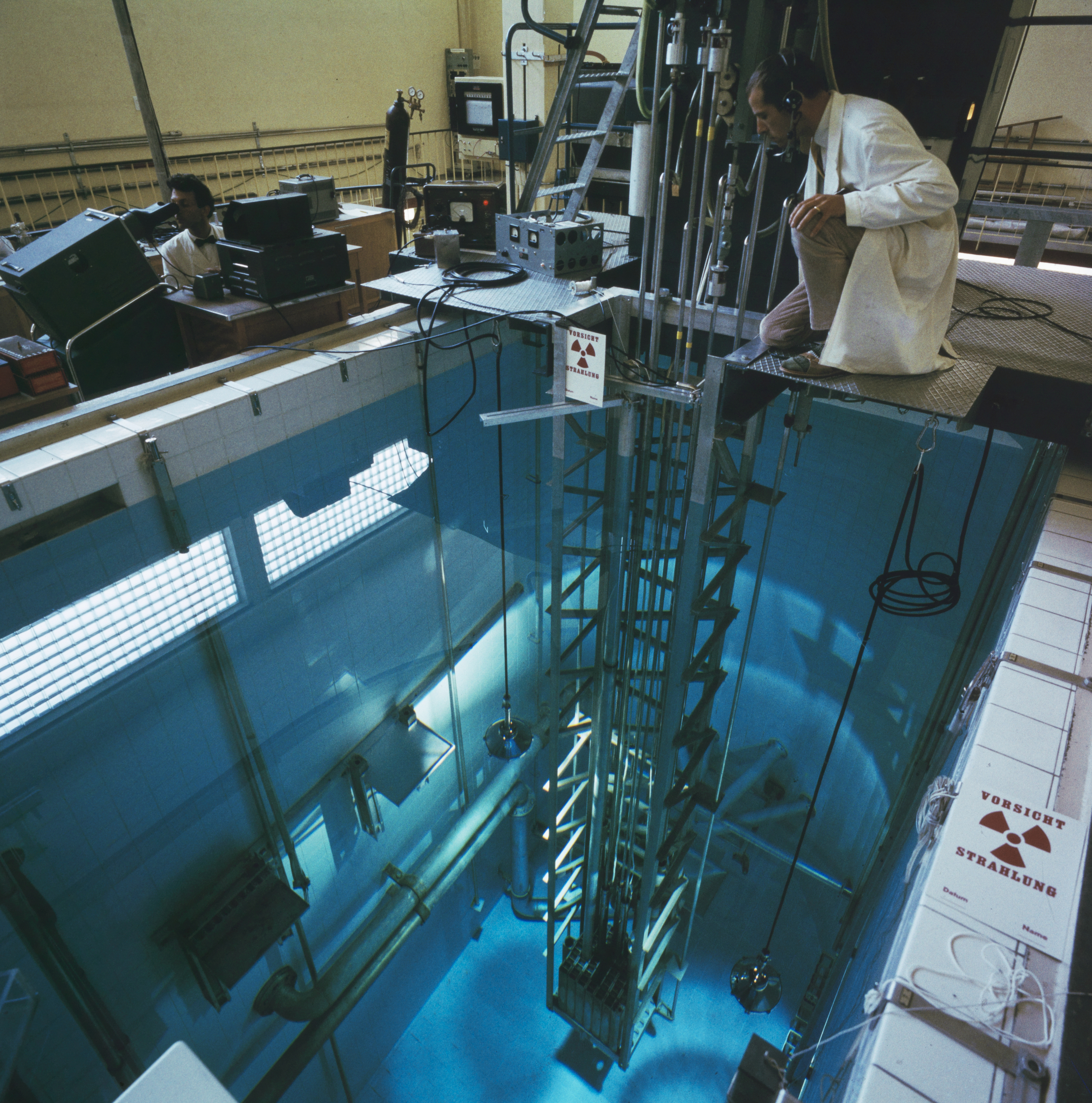 View into the pool-type research reactor Saphir of the Federal Institute for Reactor Research (today: Paul Scherrer Institute), 1960.